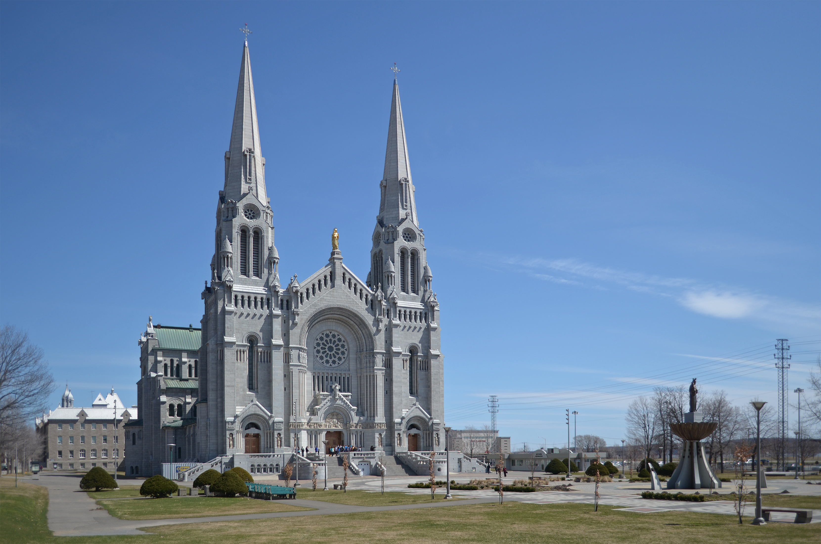 Basilica of Sainte-Anne-de-Beaupré - Quebec